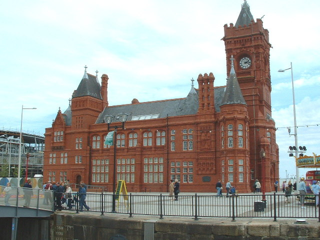 Pierhead Building Cardiff Bay The Pierhead Building dates back to 1896 and is now a major landmark ,with the distinctive red-brown stone, clock tower and turrets